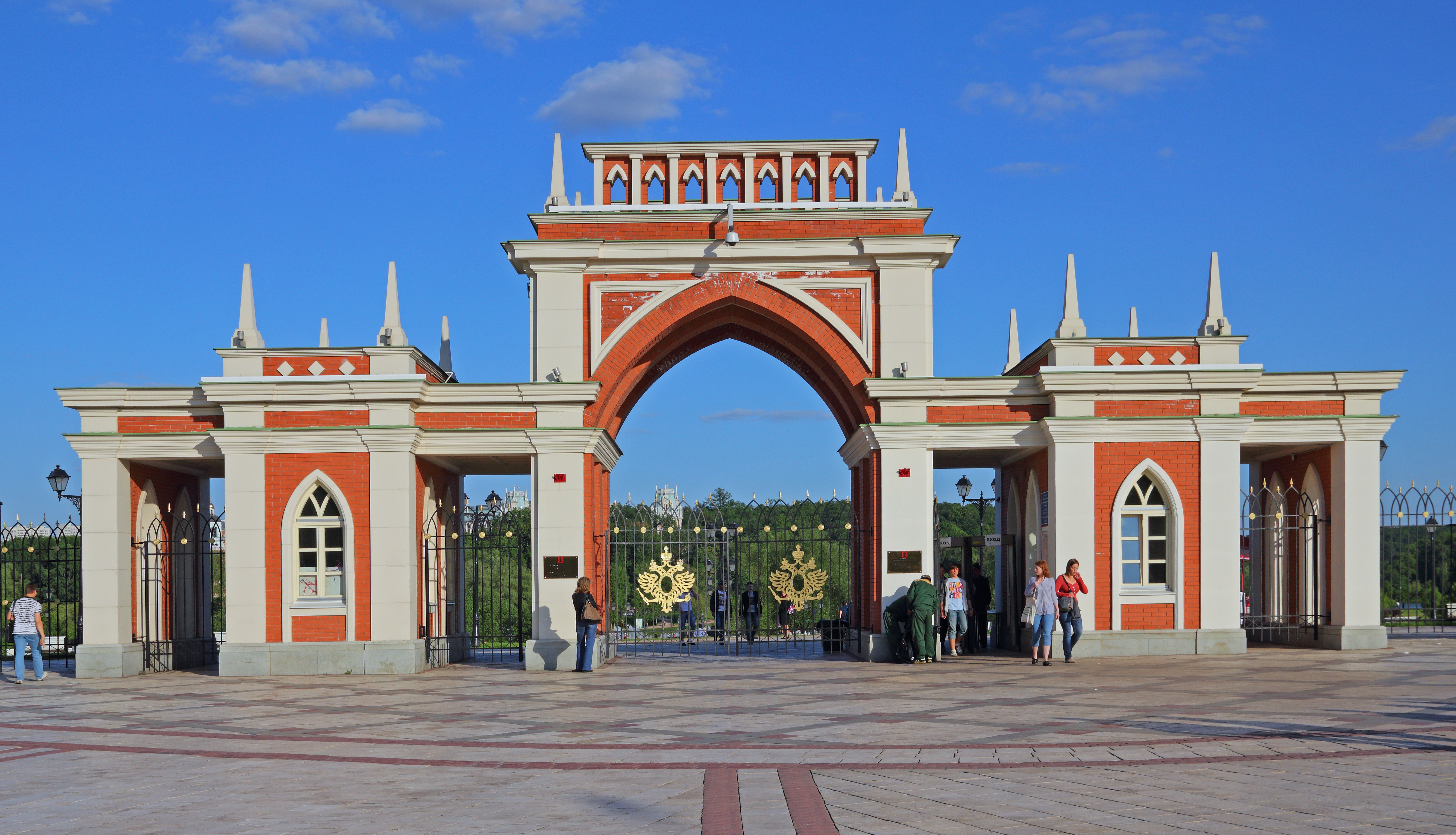 Moscow, Russia. Tsaritsyno Museum Reserve. Entrance gate near Tsaritsyno station.